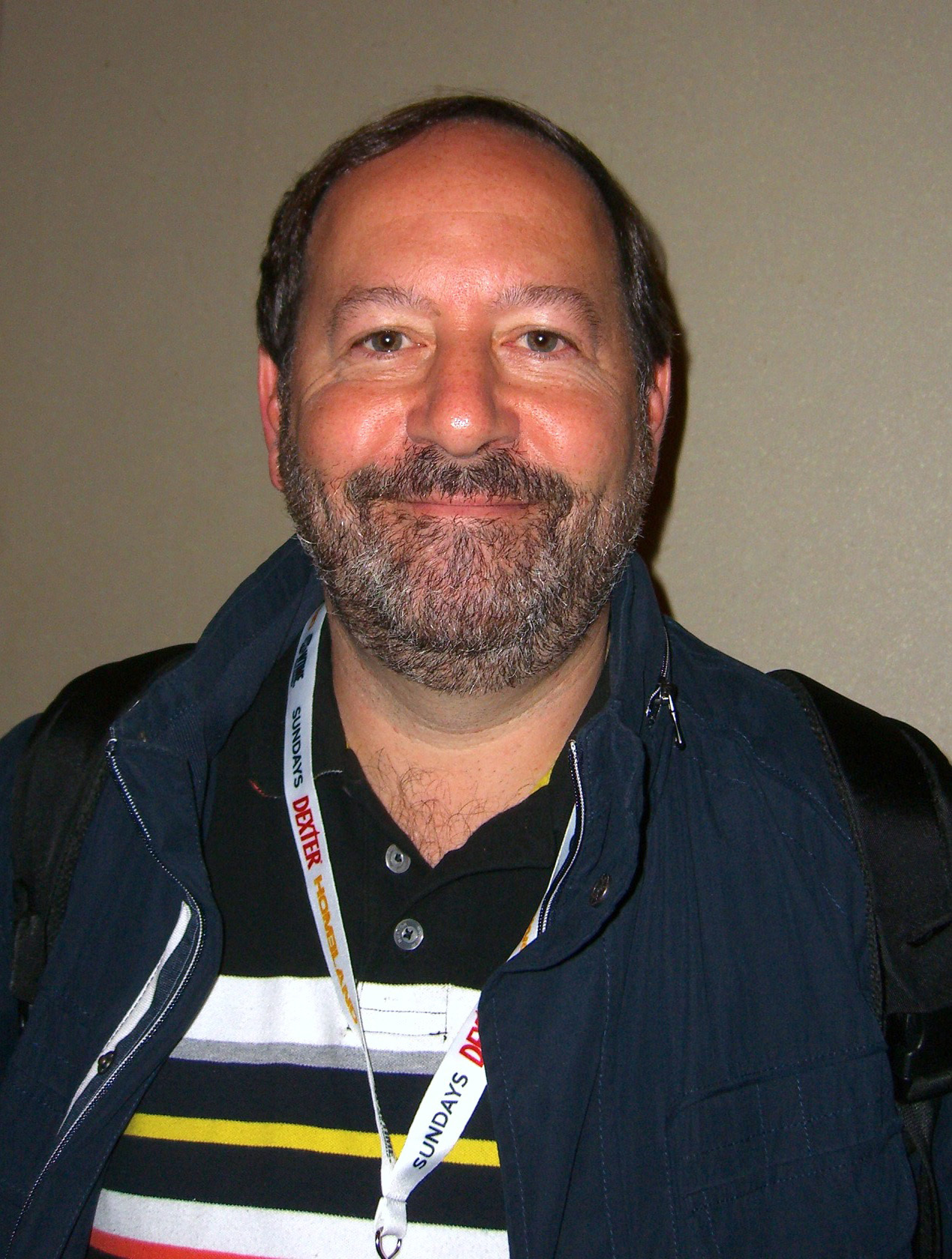 Musician and filmmaker Josh Braun following the Creepy/Eerie panel discussion on Day 3 of the 2012 New York Comic Con, Saturday October 13, 2012 at the Jacob K. Javits Convention Center in Manhattan. This photo was created by Luigi Novi. It is not in the public domain, and use of this file outside of the licensing terms is a copyright violation.